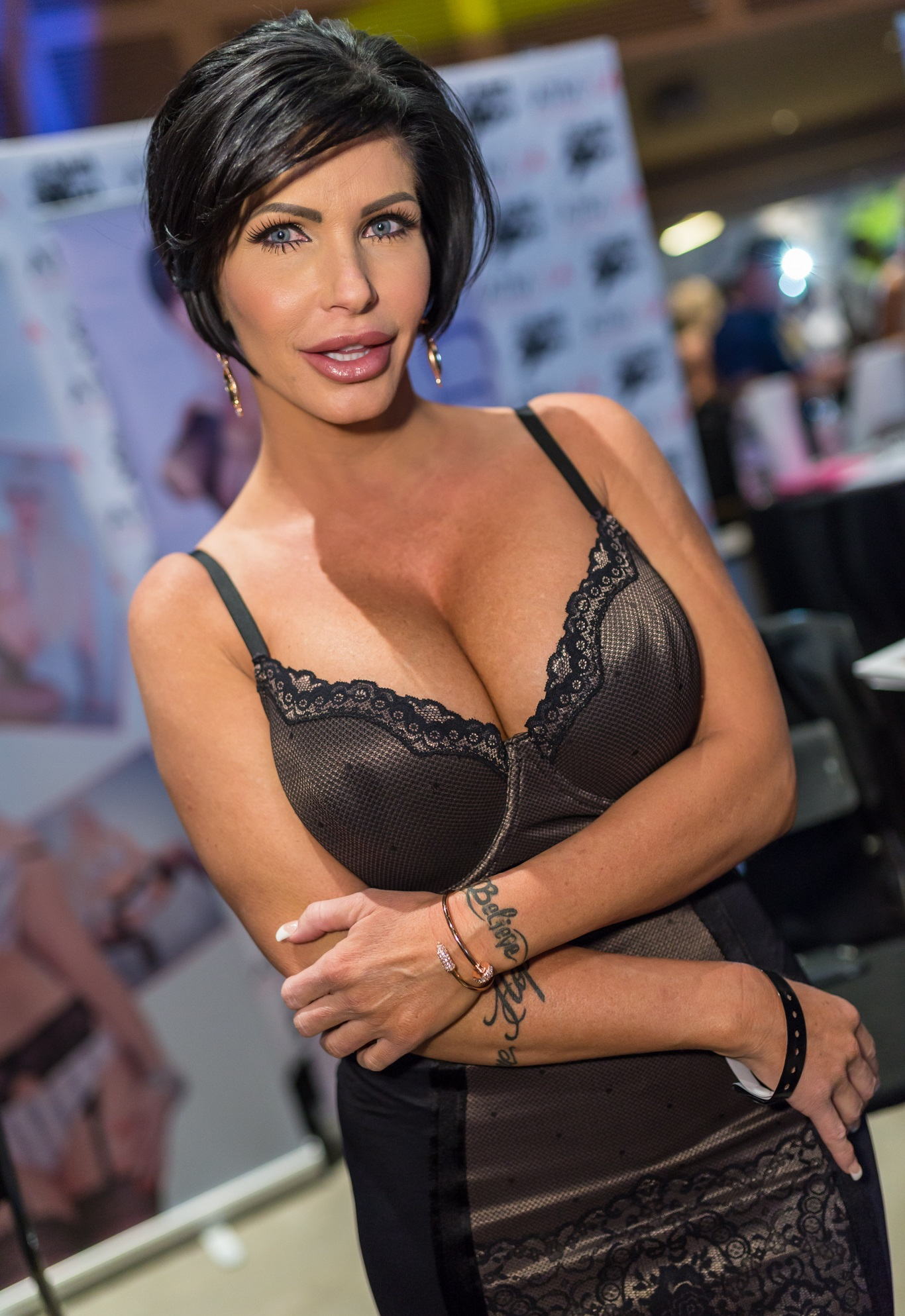 Shay Fox at the AVN Adult Entertainment Expo in Las Vegas on January 22, 2015